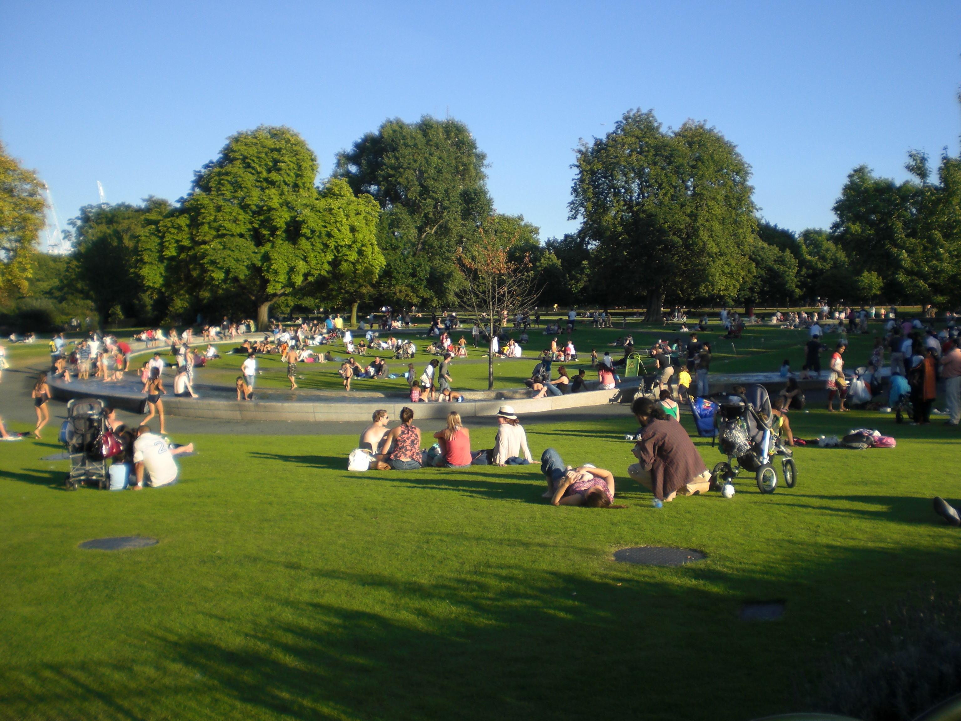 Princess of Wales Memorial Fountain 2009